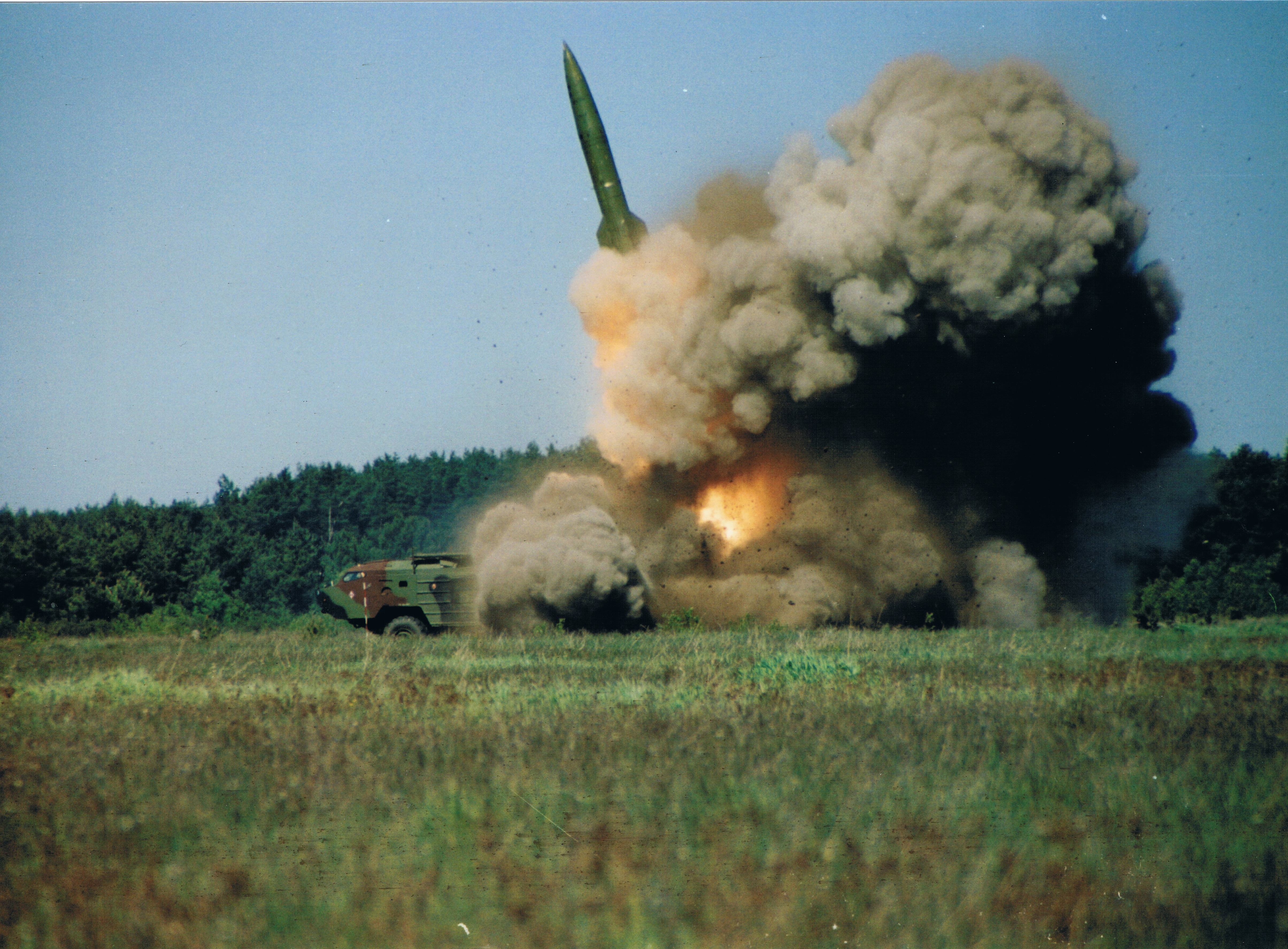 19.05.1999 - the last "Toczka" rocket fire by Polish Army.